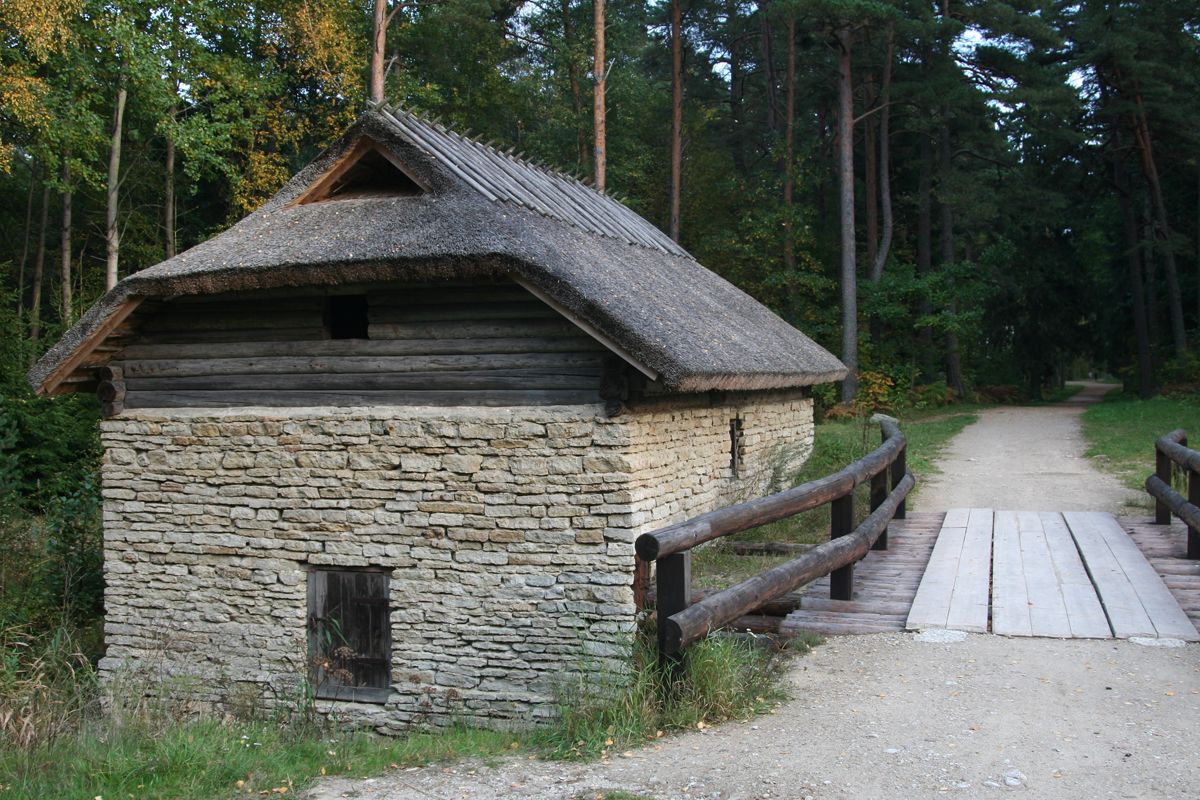 Estonian Open Air Museum, Kahala Water Mill